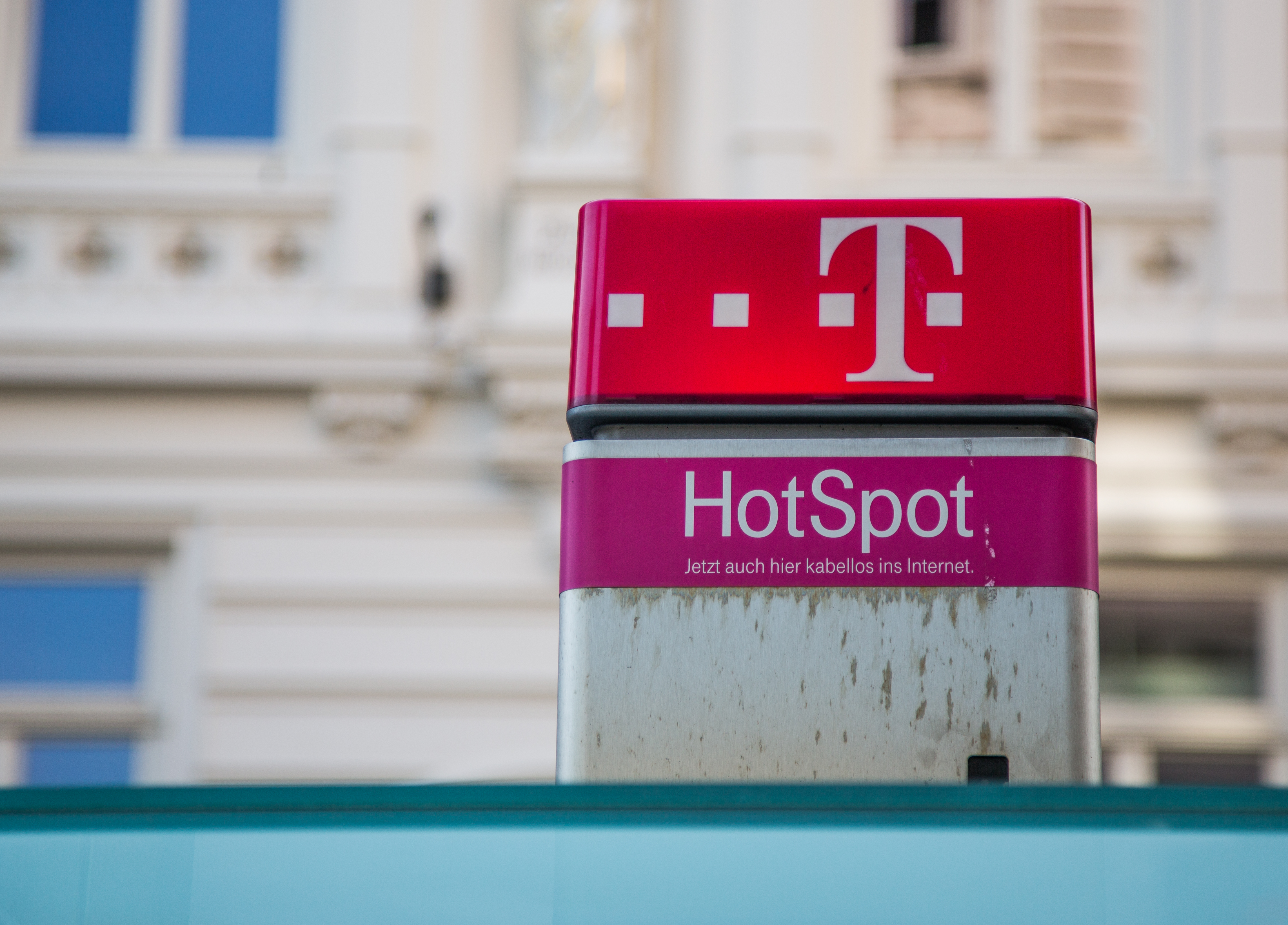 A T-Mobile "WLAN TO GO" wi-fi hotspot in Hamburg, Germany.